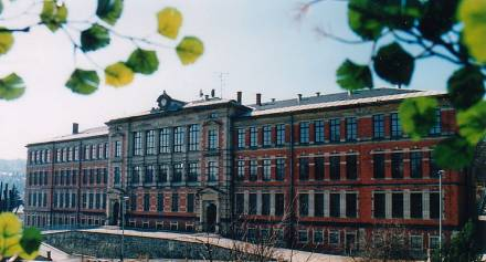 GYMNASIUM MARKNEUKIRCHEN